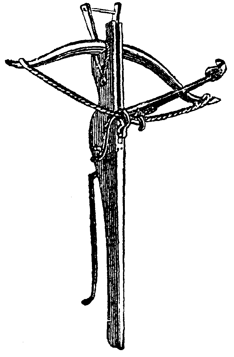 Crossbow